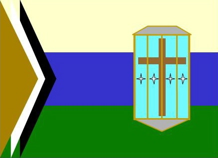 My version of the Santa Ana de Coro flag.